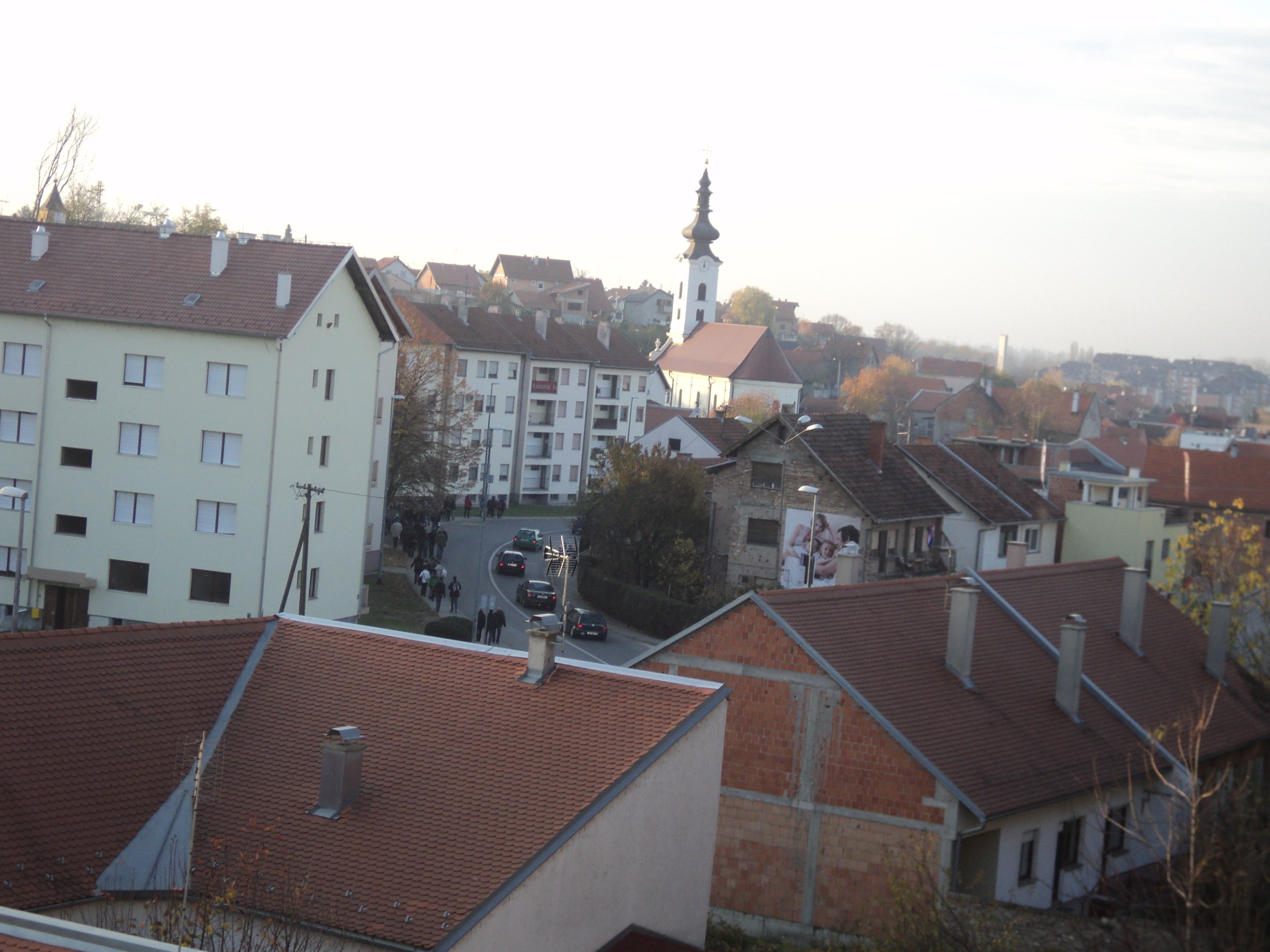 Panorama of Vukovar, Croatia.